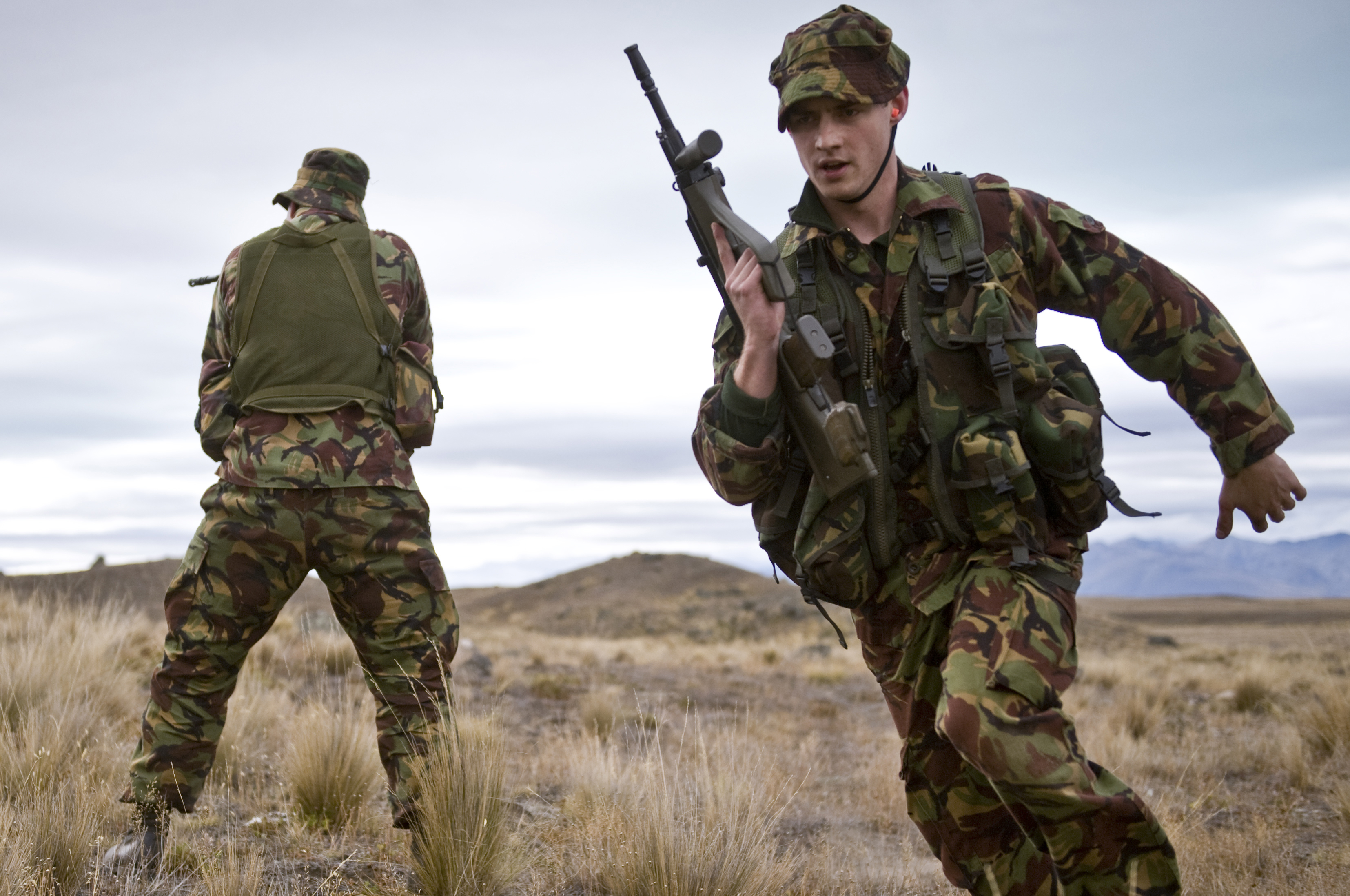 Queen Alexandra Mounted Rifles (QAMR) exercise at Tekapo Military camp.